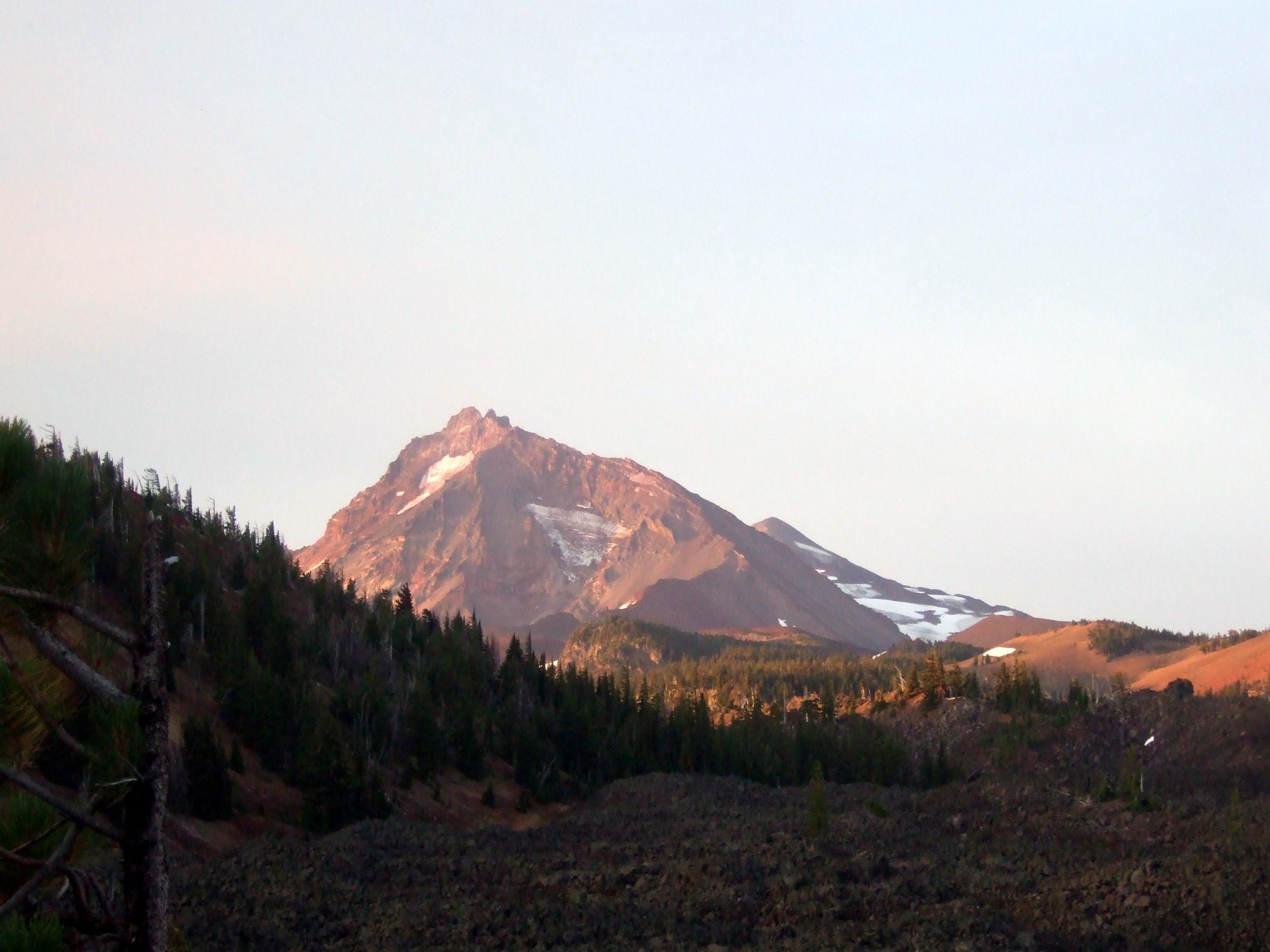 Sunrise shining on North Sister, Three Sisters Wilderness, Oregon